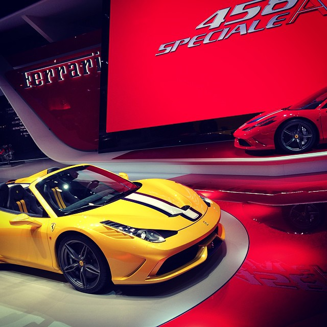 Ferrari 458 Speciale A, 2014 Paris Motor Show.